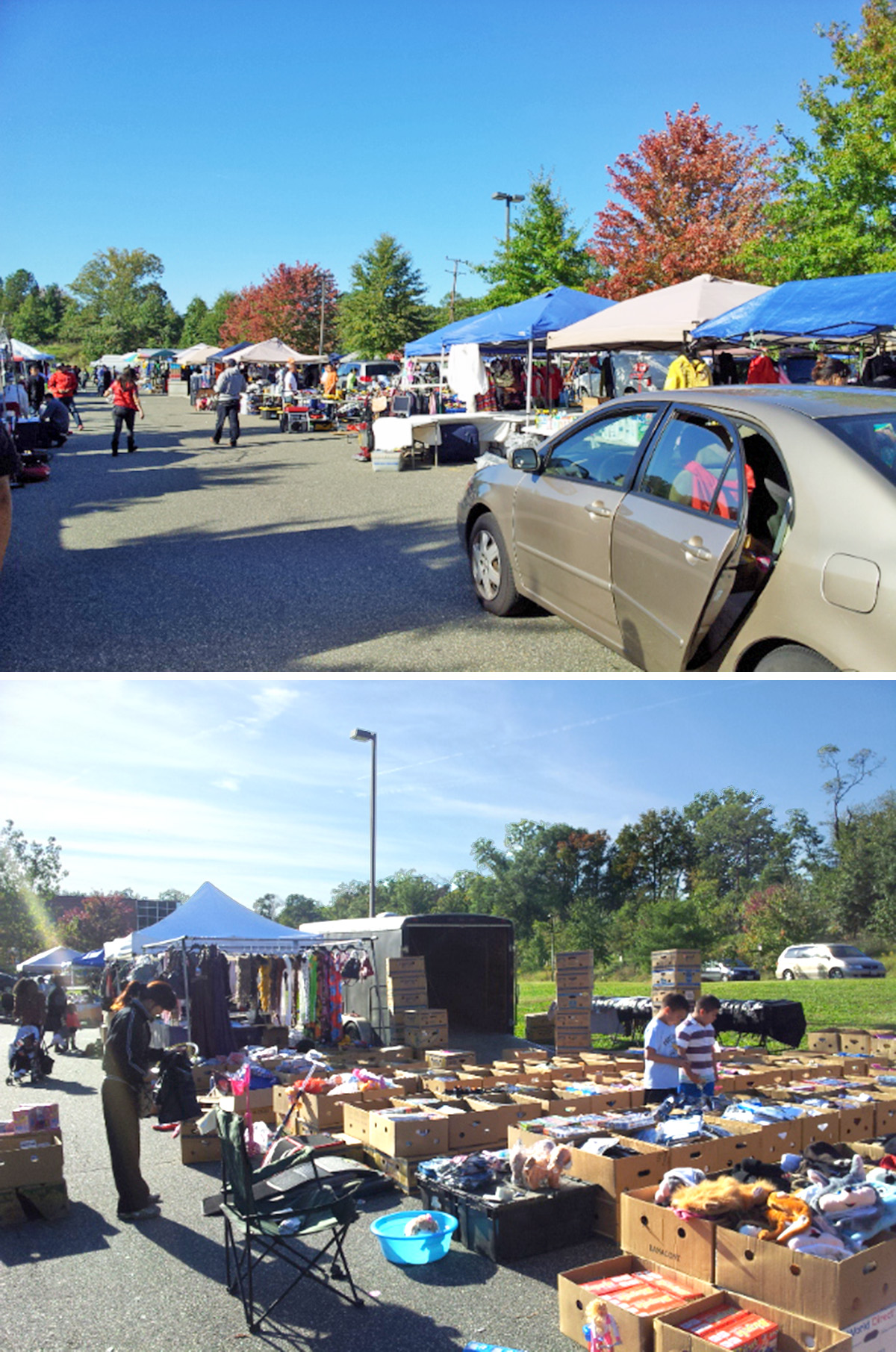 The weekly, Saturday-run ISP Flea Market at Northwestern High School, administered by the schools' International Studies Academy.